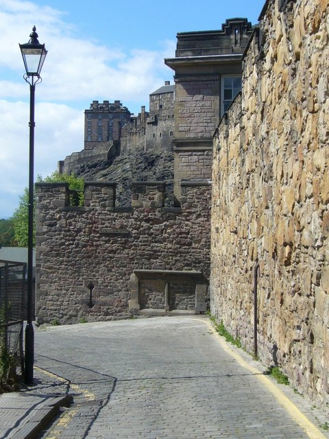 The Flodden Wall, directly ahead in the photograph, was begun in 1513 following the Scots' disastrous defeat at Flodden, when fears of an imminent English invasion were at their height. This wall enclosed the town but excluded the grounds of Heriot's Hospital, directly behind the wall on the right. This is the Telfer Wall, built as an extension to the Flodden Wall after 1618 to include the grounds of Heriot's Hospital and the Greyfriars Kirk within the town's defences.